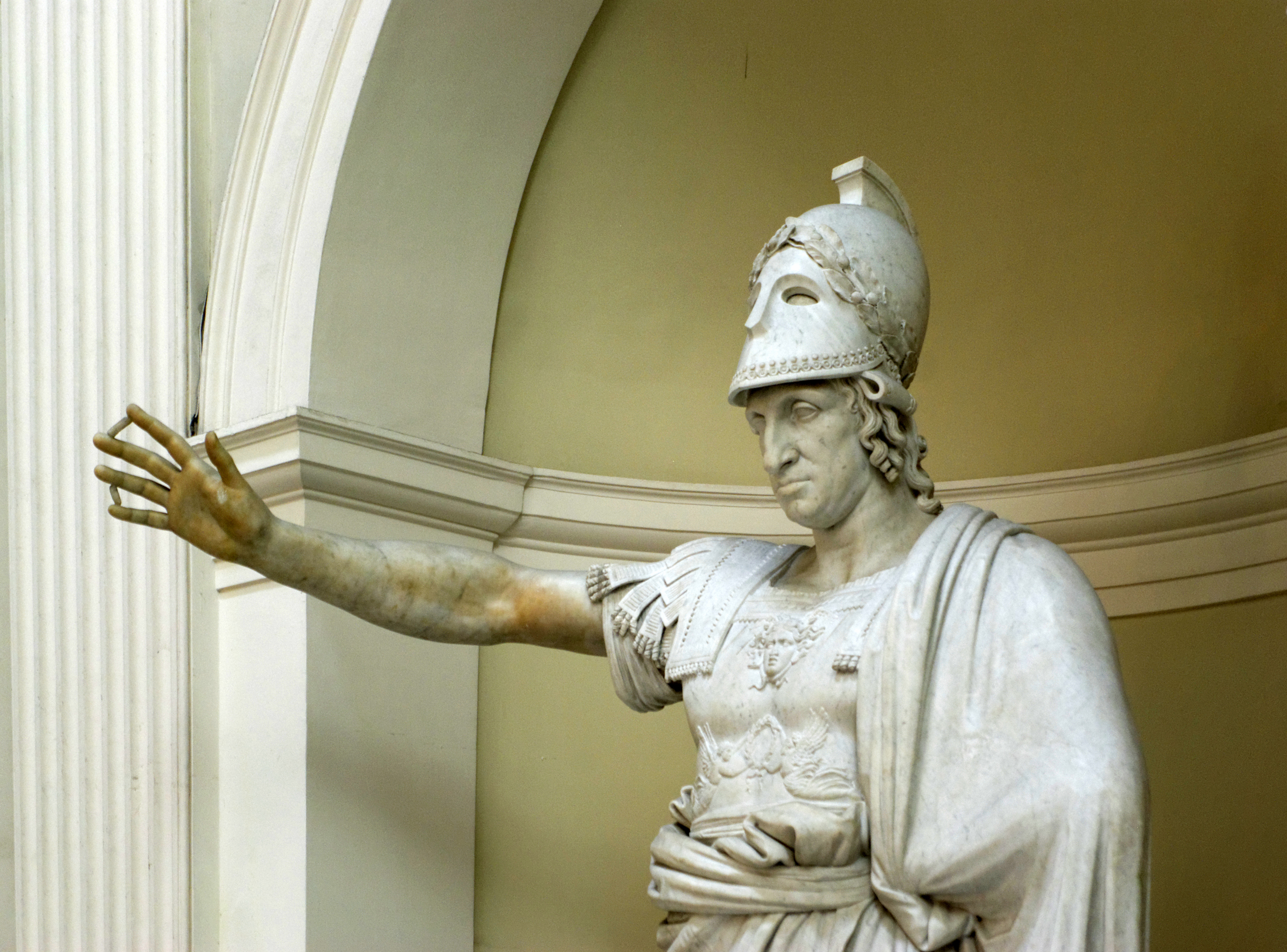 Naples, National Archaeological Museum